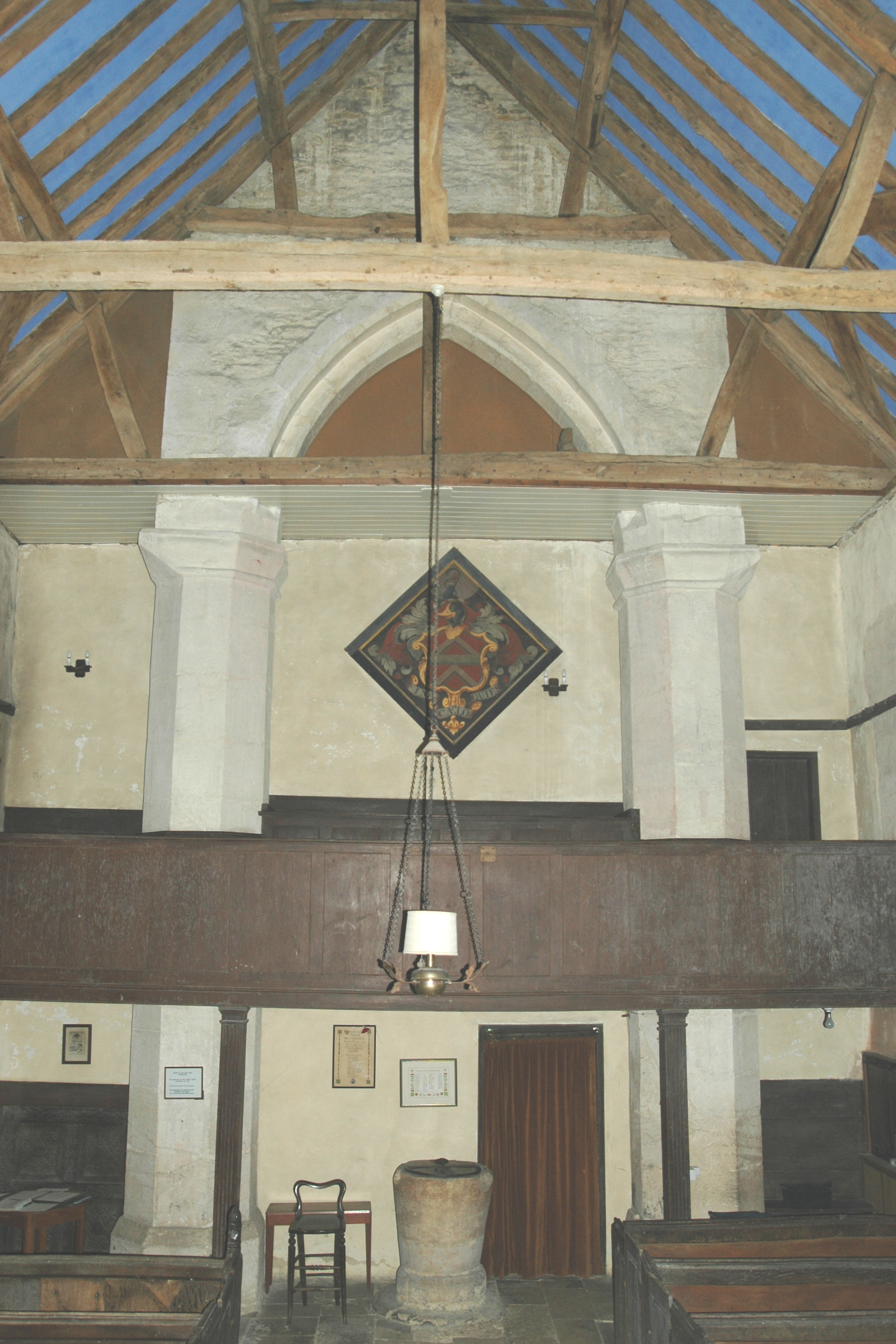 Church of England parish church of the Holy Rood, Woodeaton, Oxfordshire: inside the nave looking west toward the tower supports and west gallery